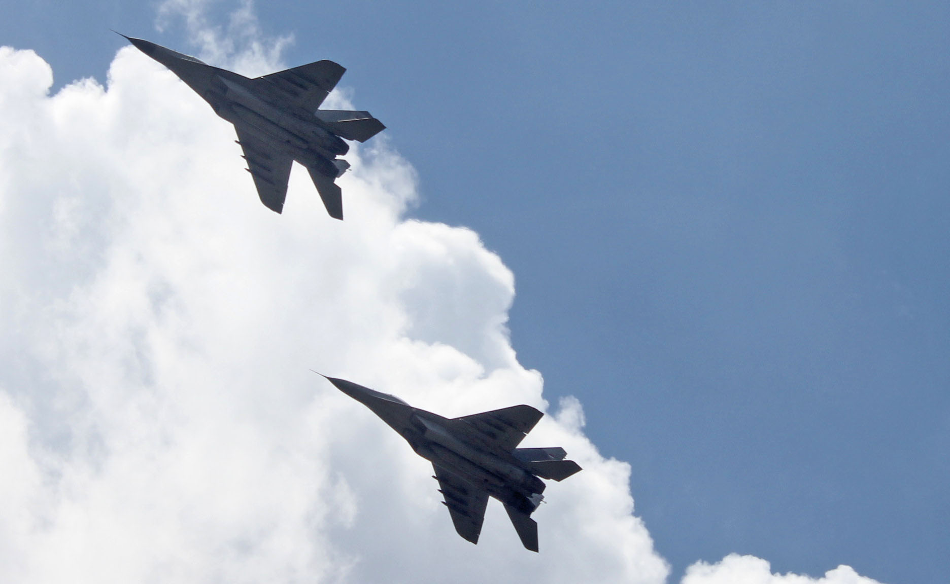 Serbian Air Force MiG-29 fighters at military parade in Niš.